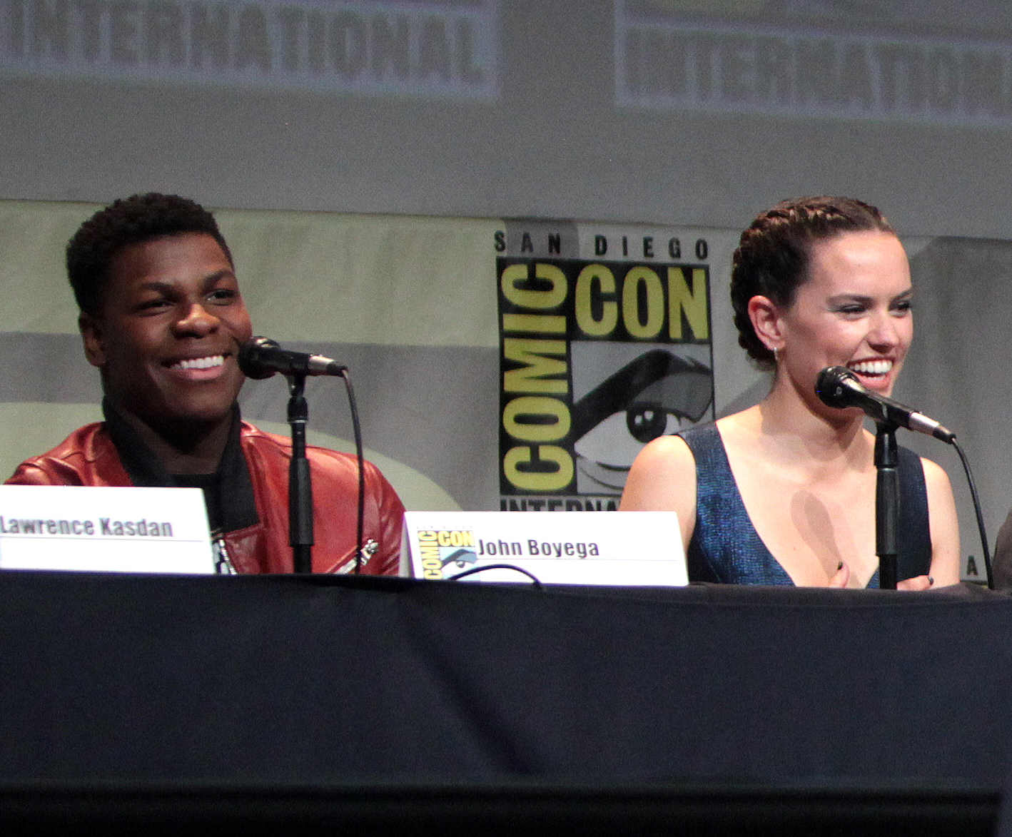 John Boyega and Daisy Ridley speaking at the 2015 San Diego Comic Con International, for "Star Wars: The Force Awakens", at the San Diego Convention Center in San Diego, California.